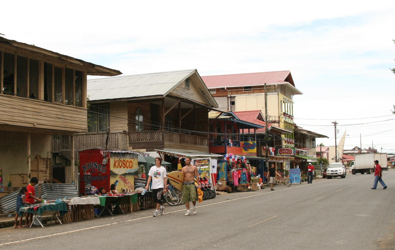 The Town of Bocas del Toro, Panama